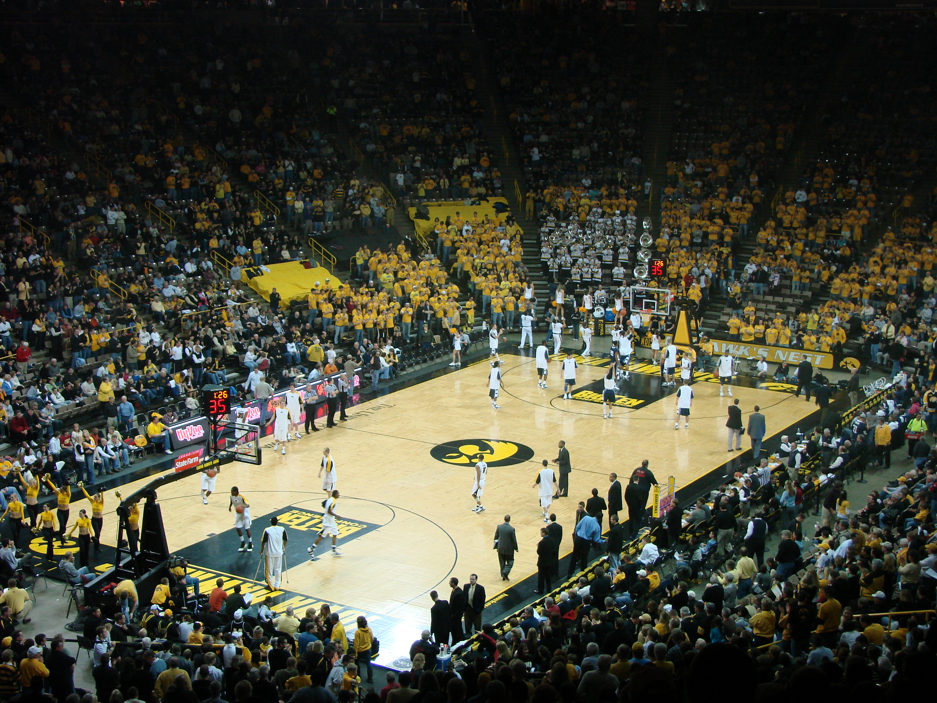 Iowa Hawkeyes and Penn State Nittany Lions men's basketball players warm up before a game at Carver-Hawkeye Arena in Iowa City, Iowa.